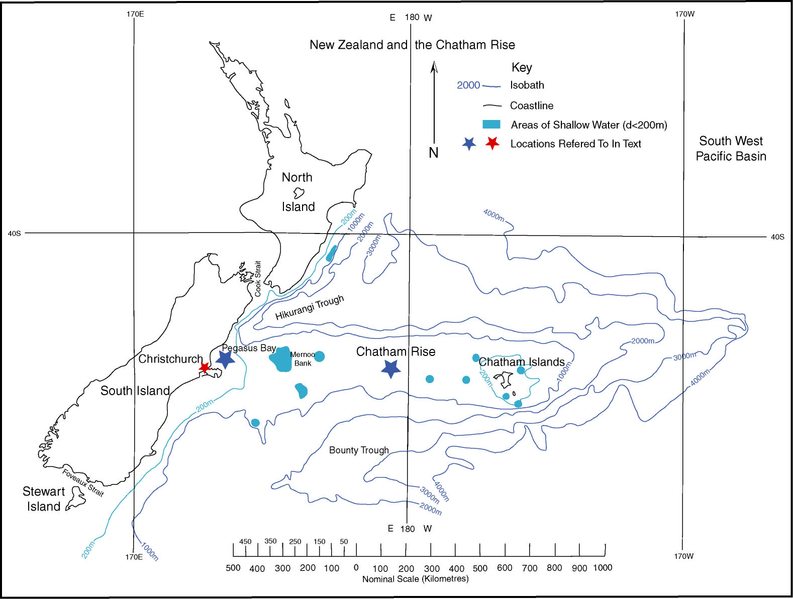 A map of the Chatham Rise, a submarine feature, which extends 1300km eastward of Christchurch, New Zealand